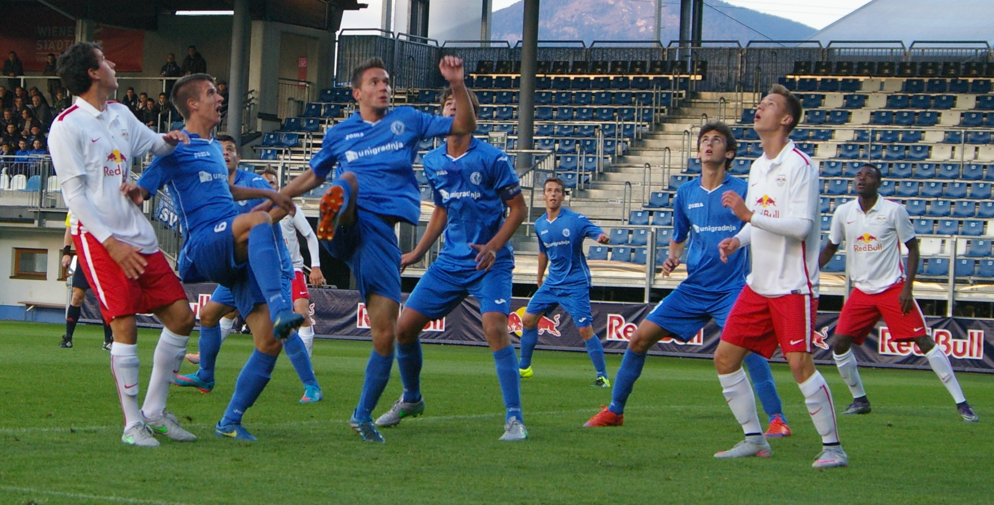 UEFA Youth League match 1.leg